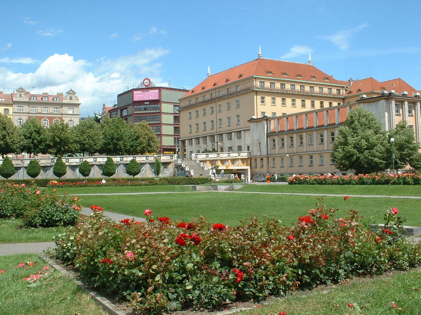 New Town, Prague, the Czech Republic. Josef Zítek's Gardens and Palacký Square with building of Ministry of Health of the Czech Republic.